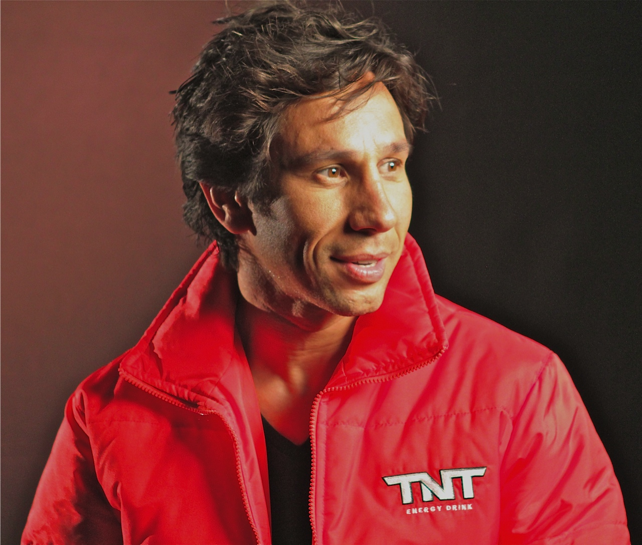 Luigi Cani is one of the most known athletes in the sport of parachuting.